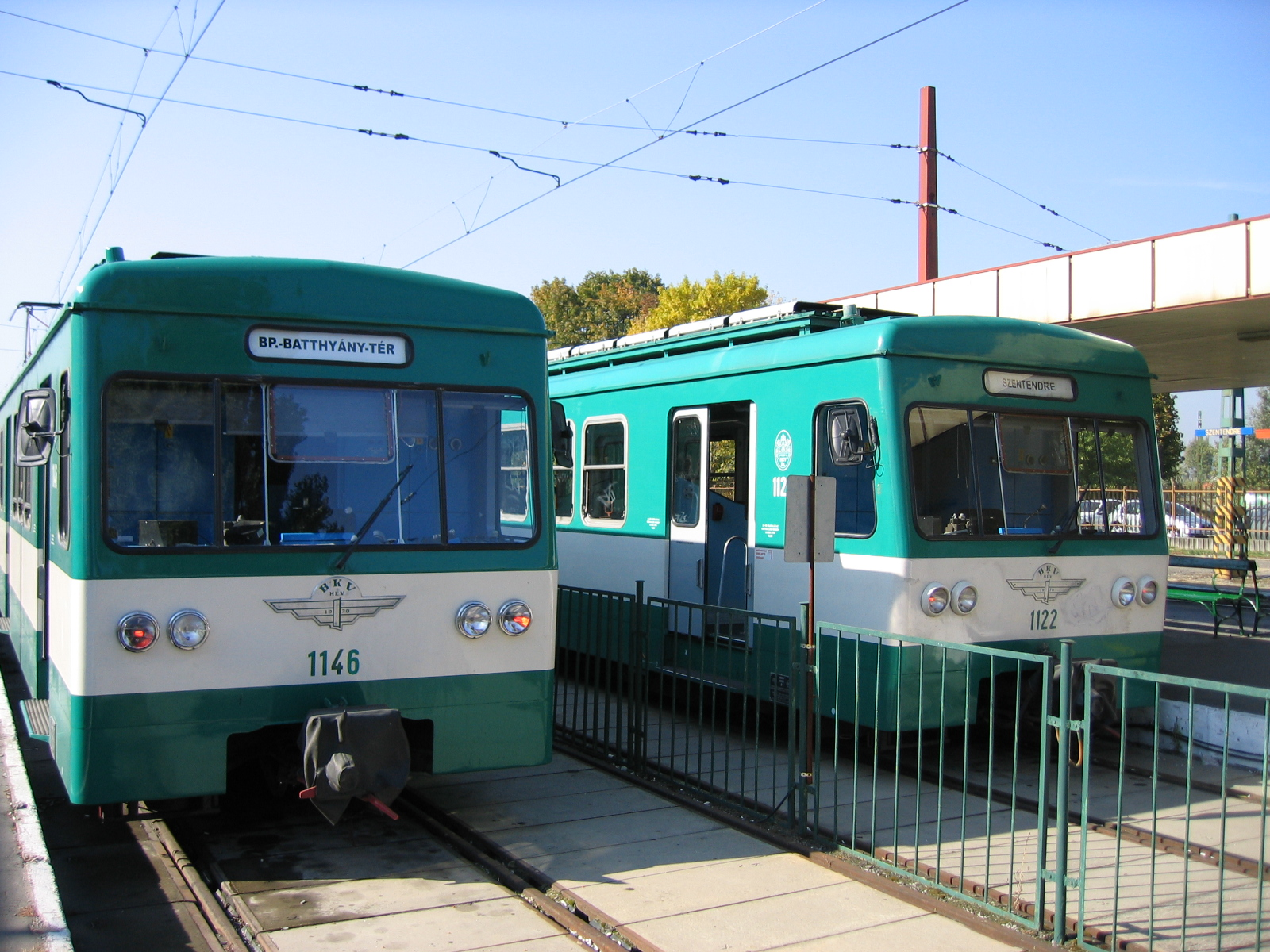 two carriages of the HÉV in Szentendre near Budapest. The carriages were built at the end of the 1970s in East Germany